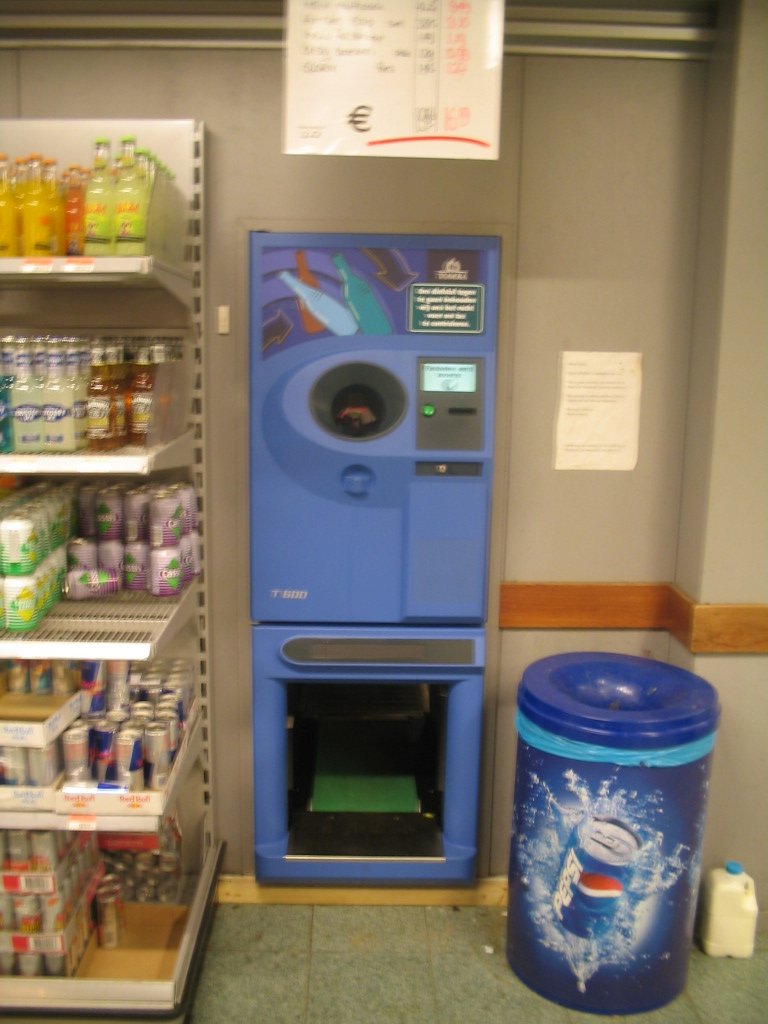 flesinnameapparaat, dec. 2005. Return vending machine for bottles and other beverage cans. Container deposit machine.